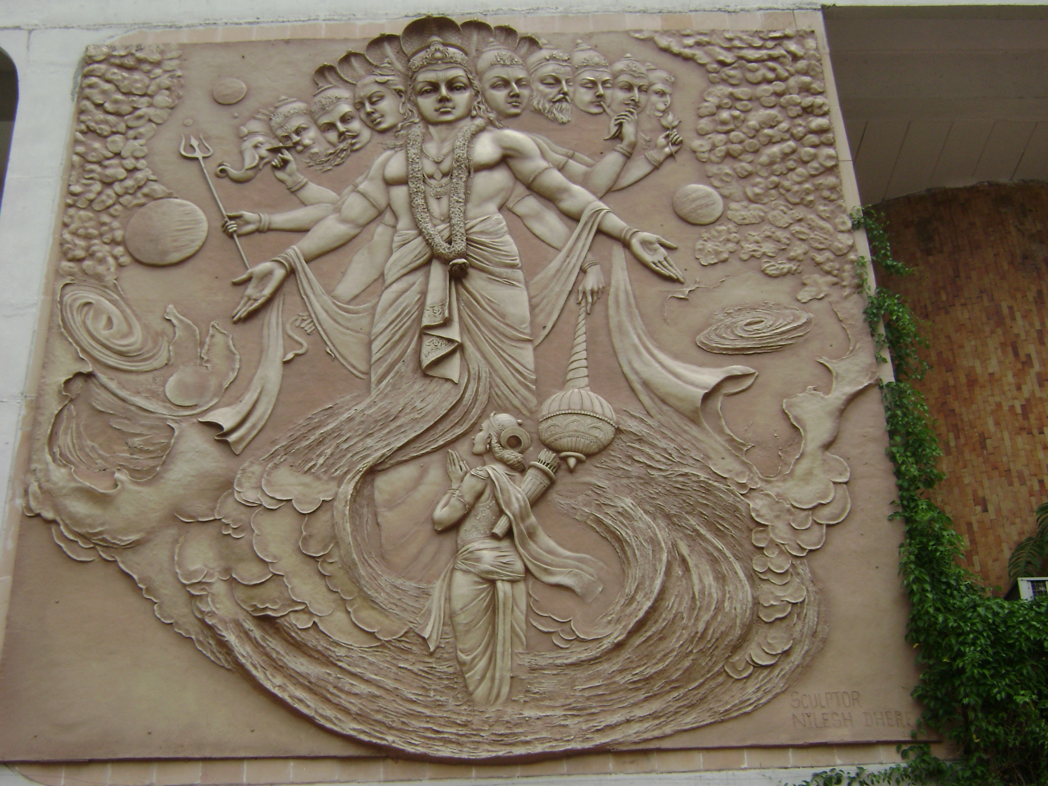 Lord Krishna shown Virat Vishwa Roopam, when teaching bagavad gita to Arjuna